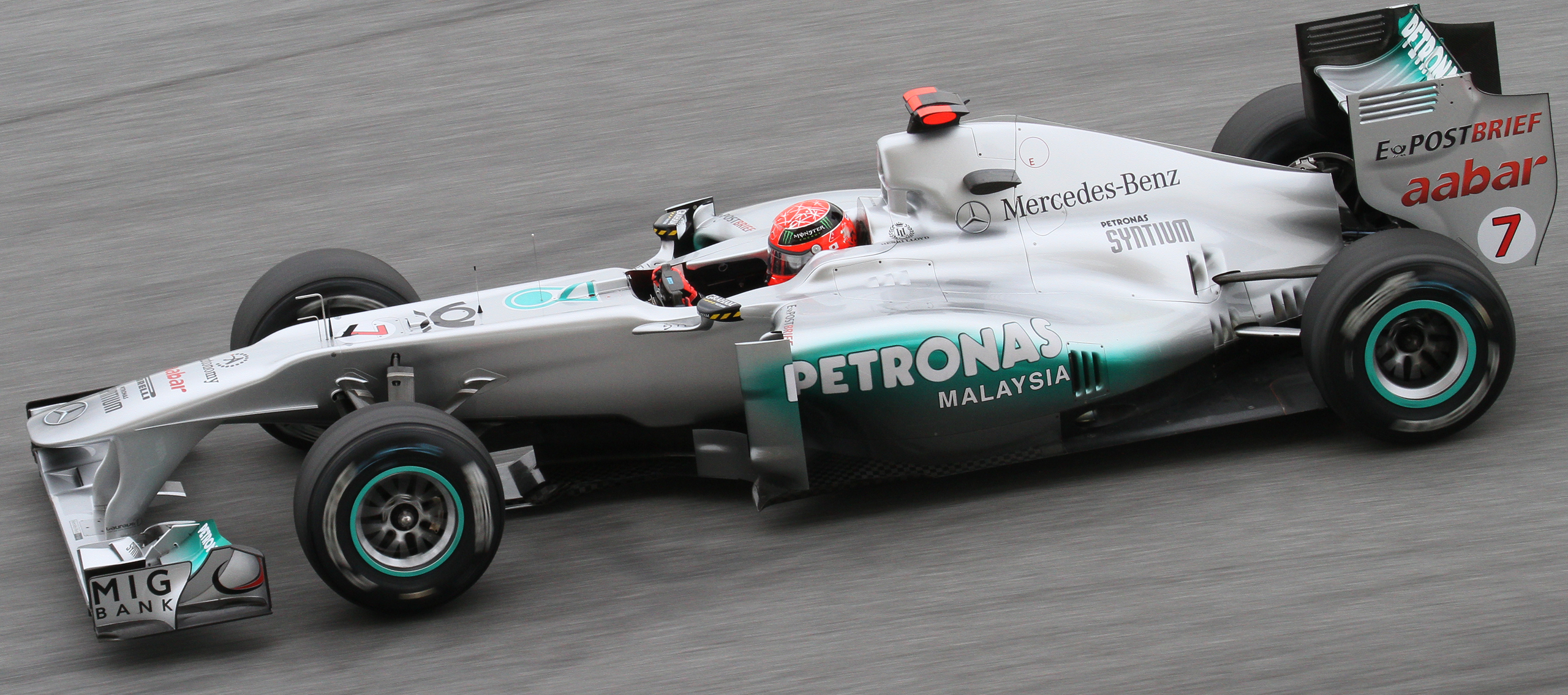 Formula One 2011 Rd.2 Malaysian GP: Michael Schumacher (Mercedes) during the first practice session on Friday.